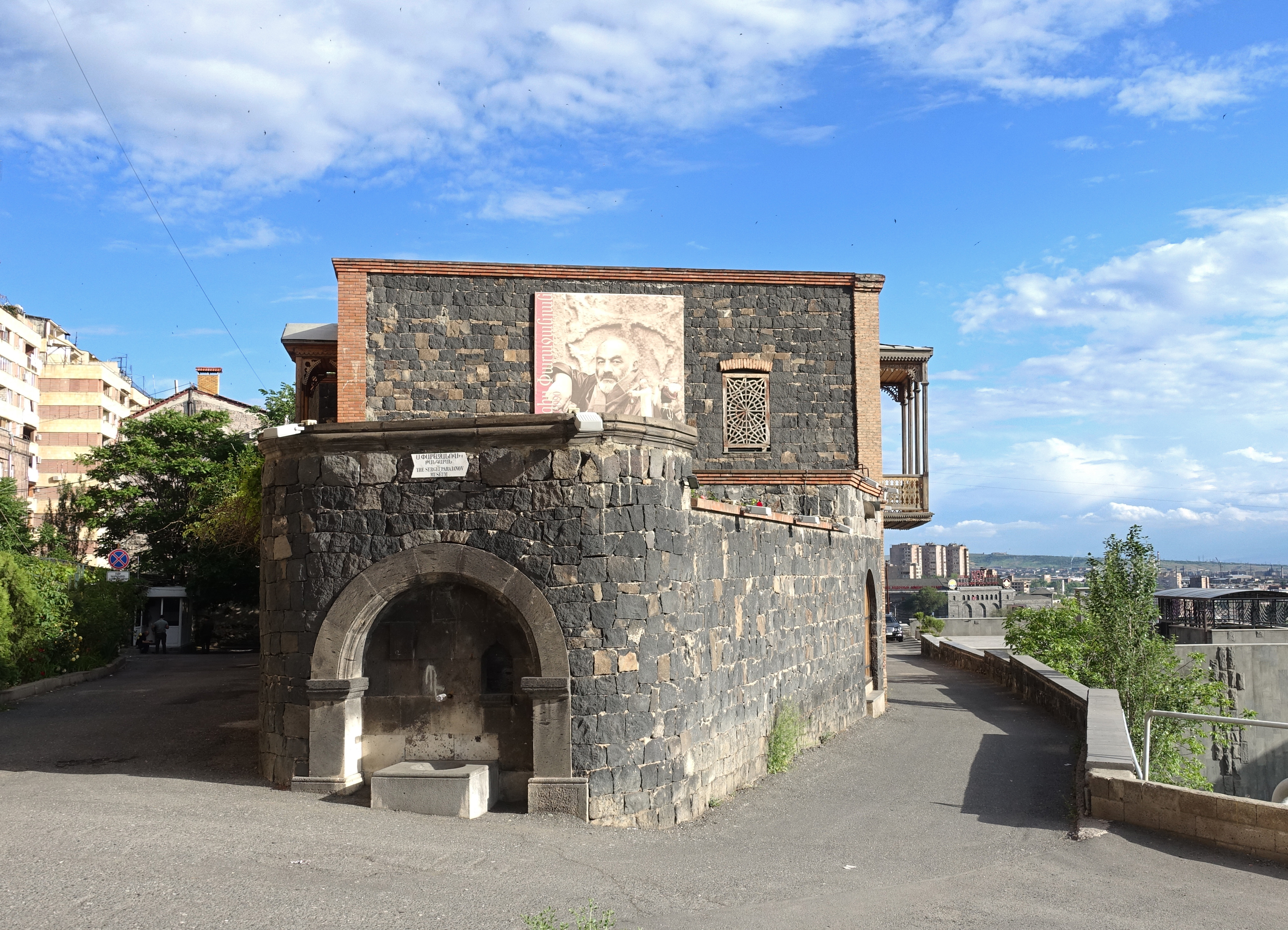 Sergei Parajanov Museum in Yerevan, Armenia.